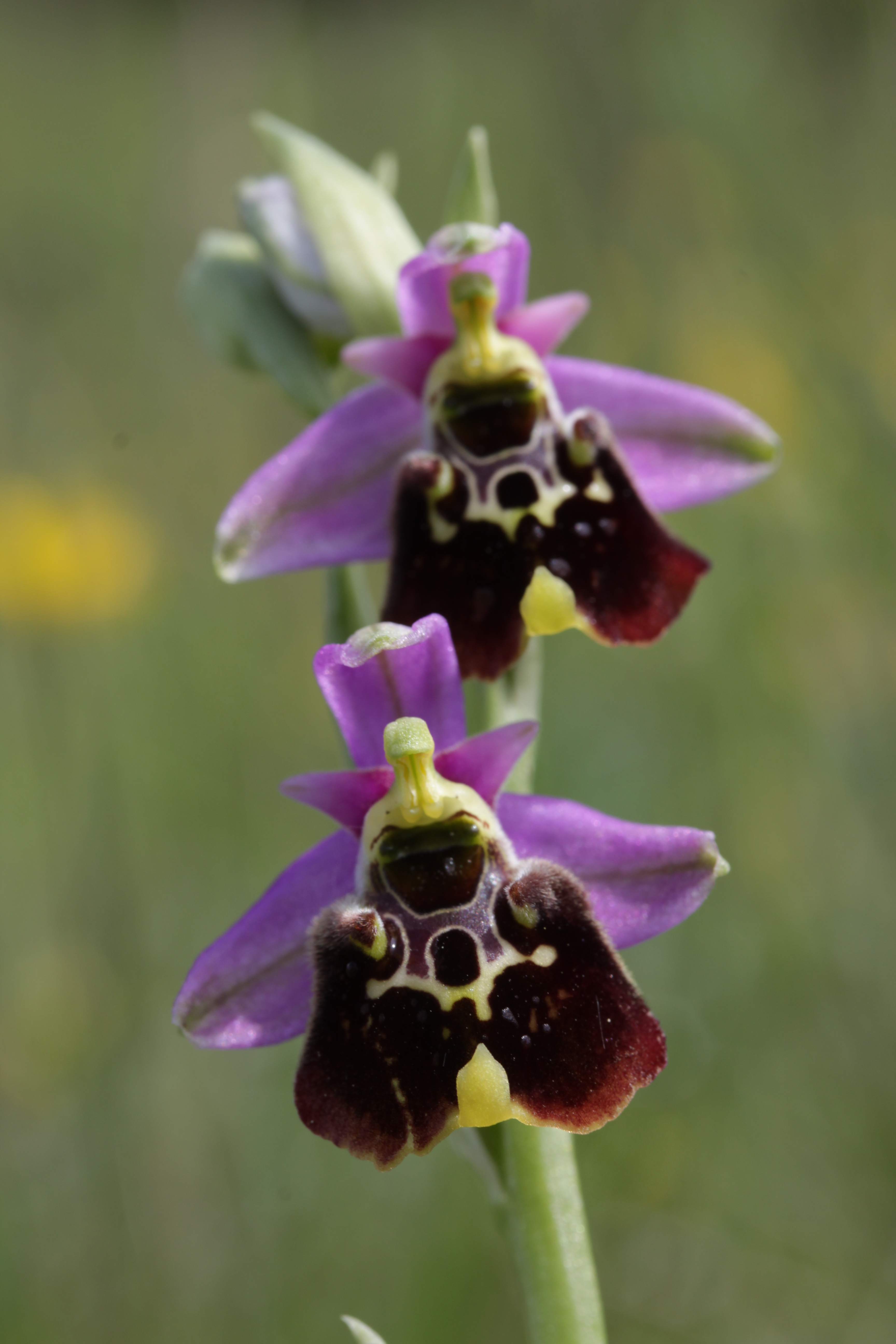 Late Spider Orchid - Ophrys holoserica